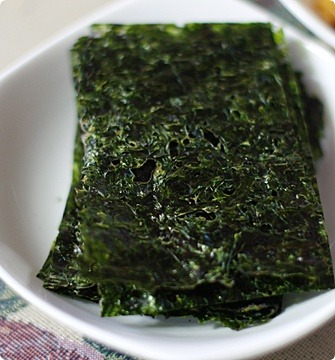 racks laver (gim)